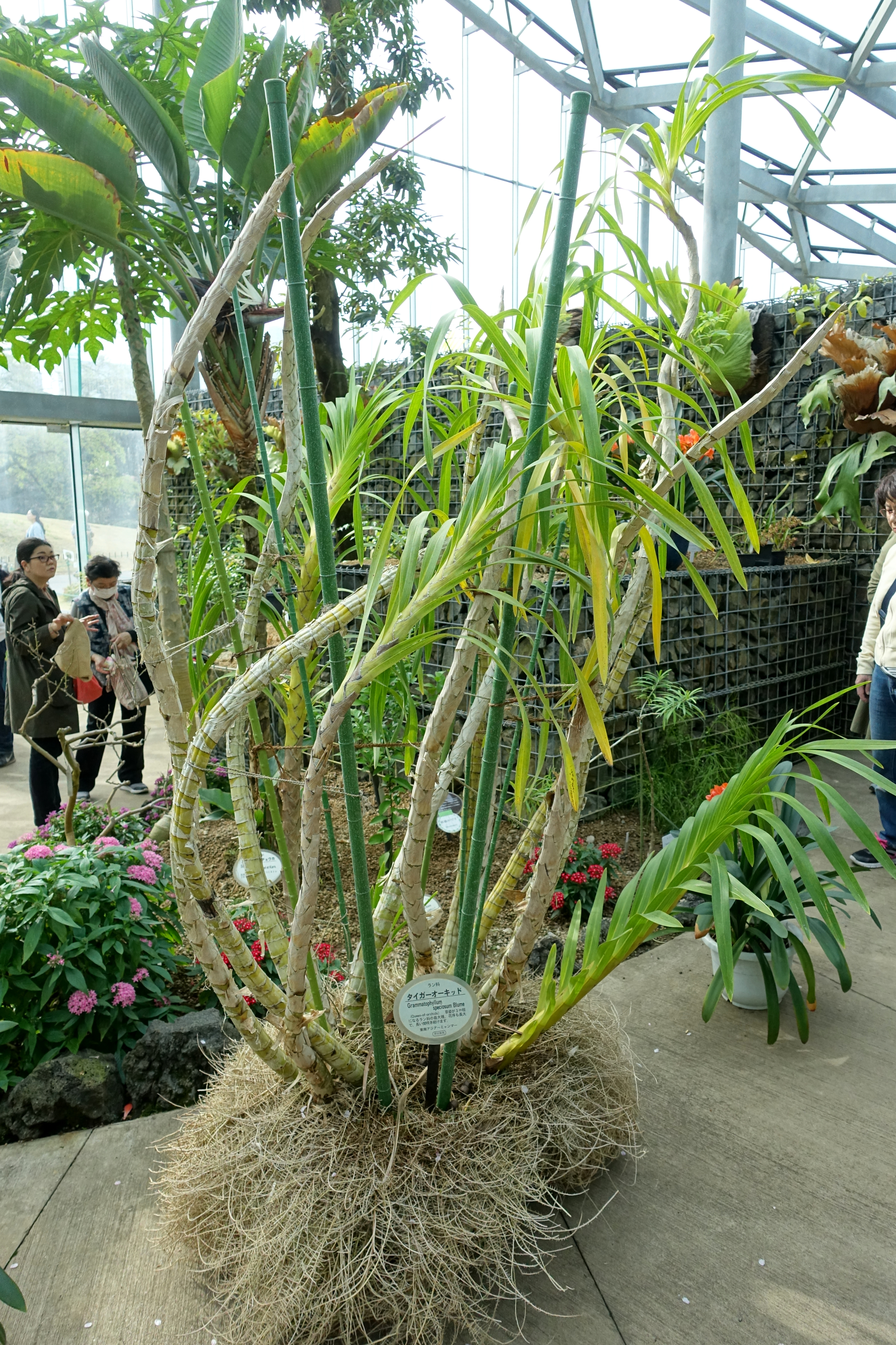 Botanical specimen in the Shinjuku Gyo-en Greenhouse - Tokyo, Japan.